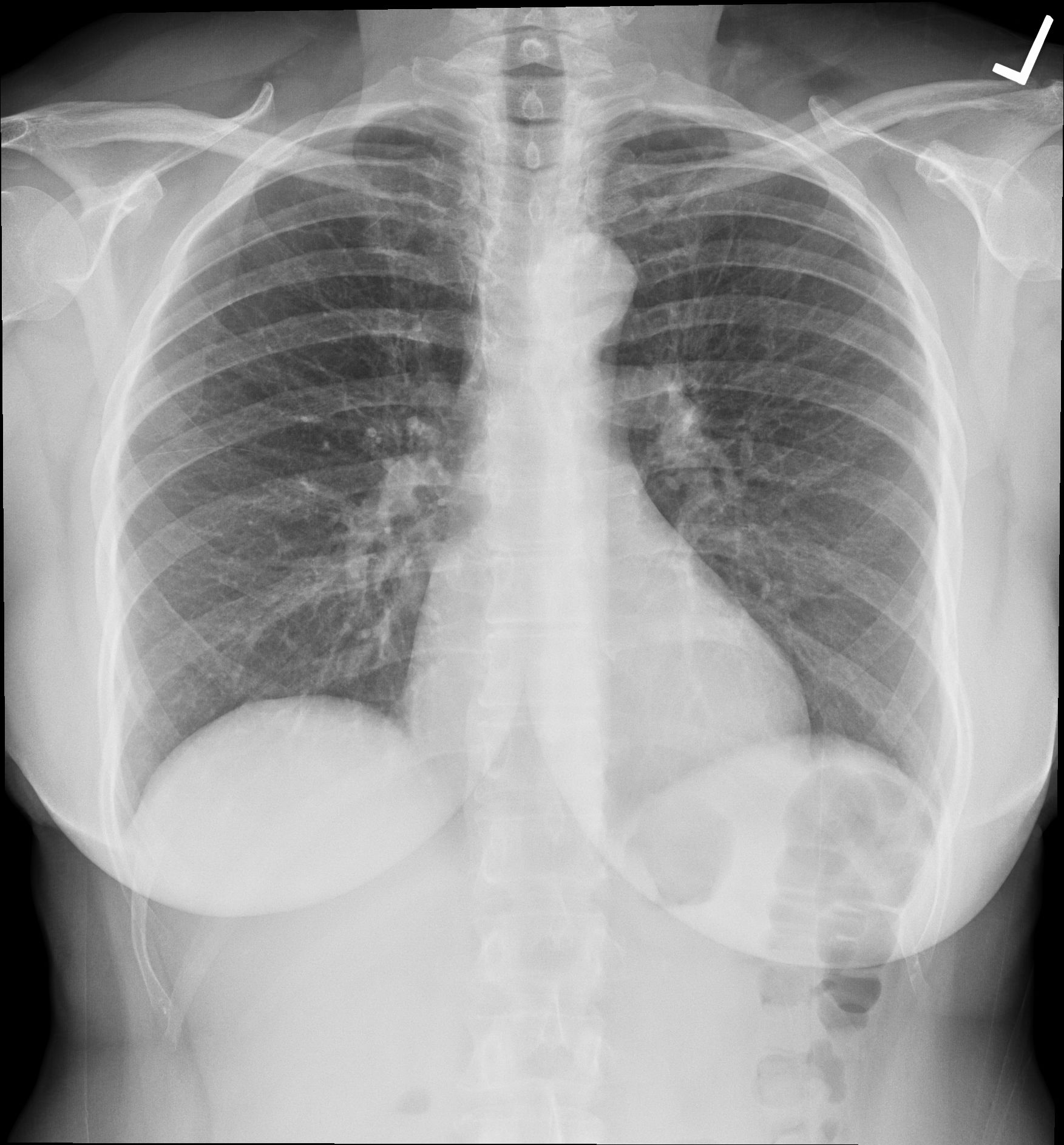 Plain film chest x-ray, normal. Acquired digitally.